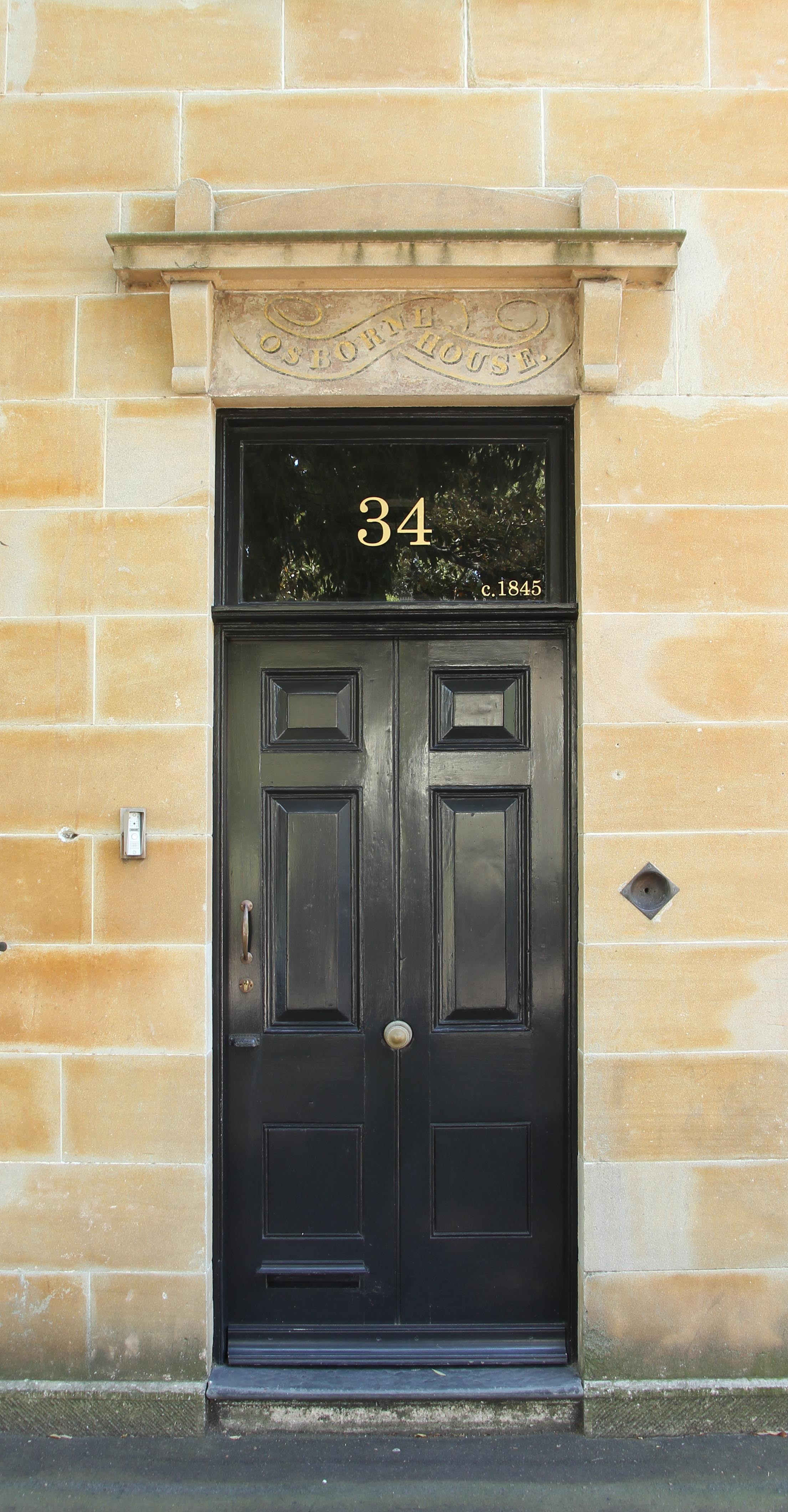 Doorway and portico of Osborne House, 34 Argyle Place, Millers Point, City of Sydney, New South Wales, Australia